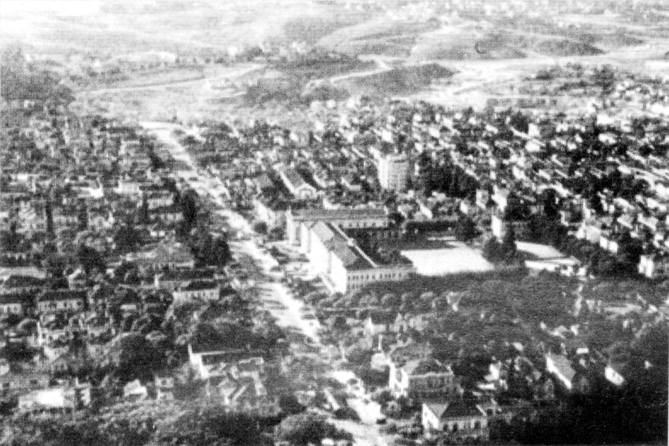 Paulista Avenue in 1936